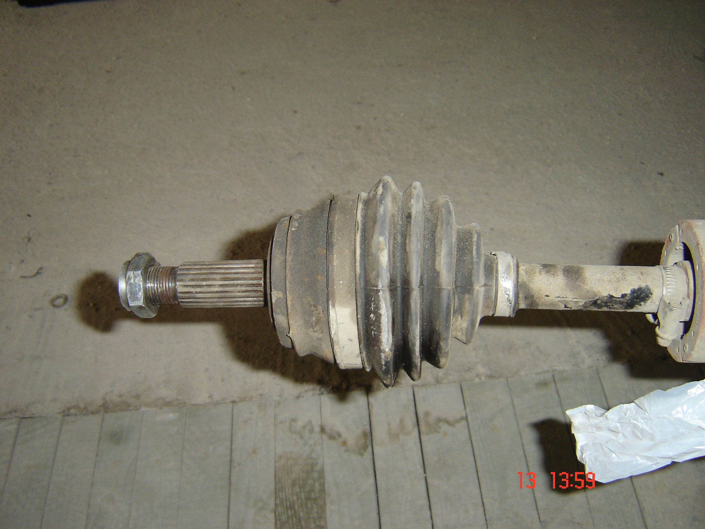 CV joint on half axle.